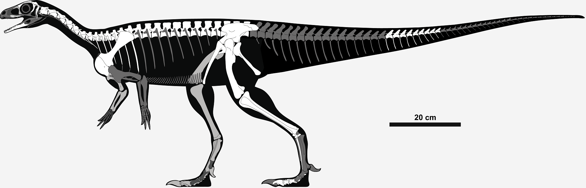 Skeletal reconstruction of Saturnalia tupiniquim